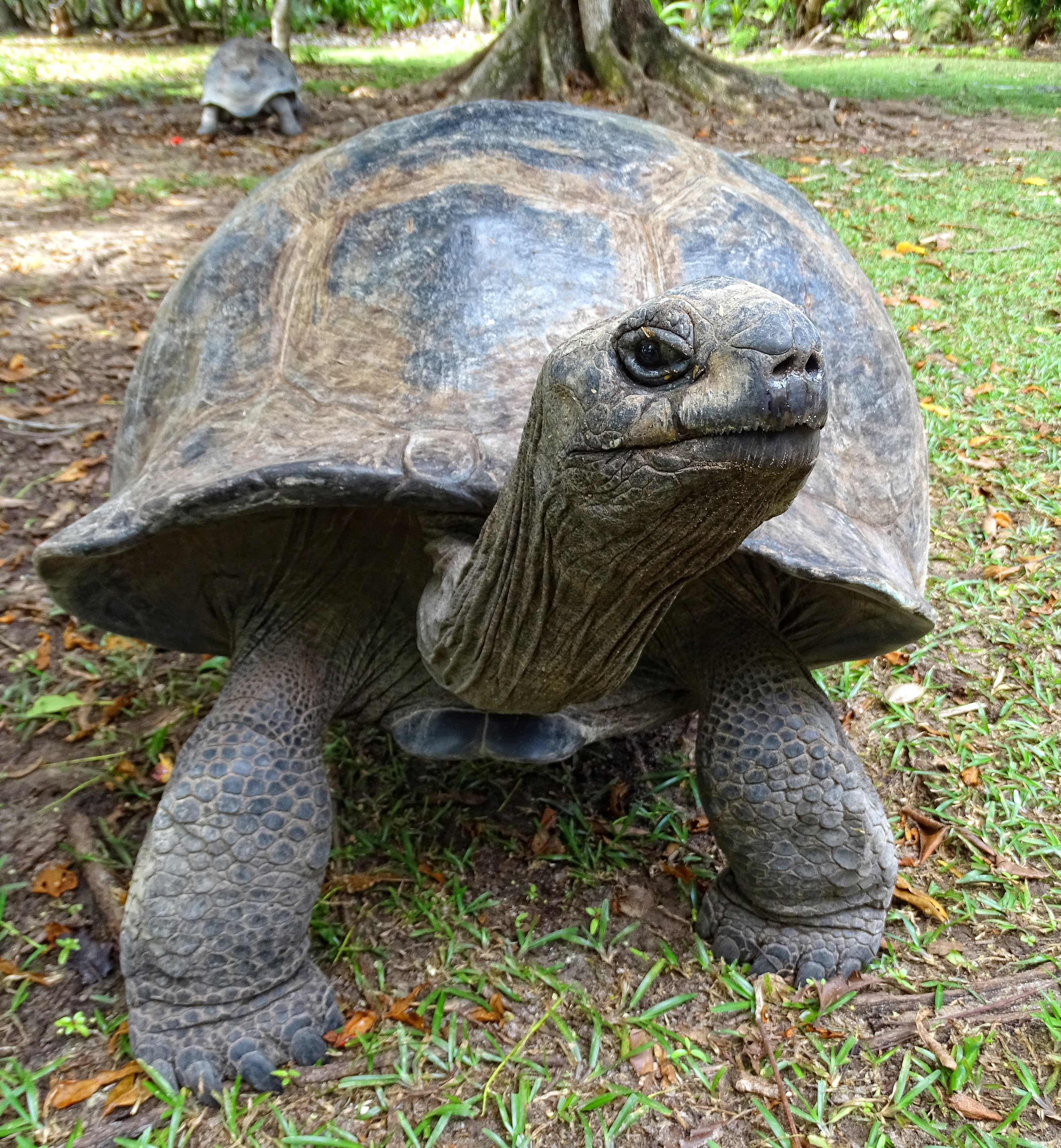 A female aldabra giant tortoise (Aldabrachelys gigantea) living in the wild on the island Curieuse, Seychelles.